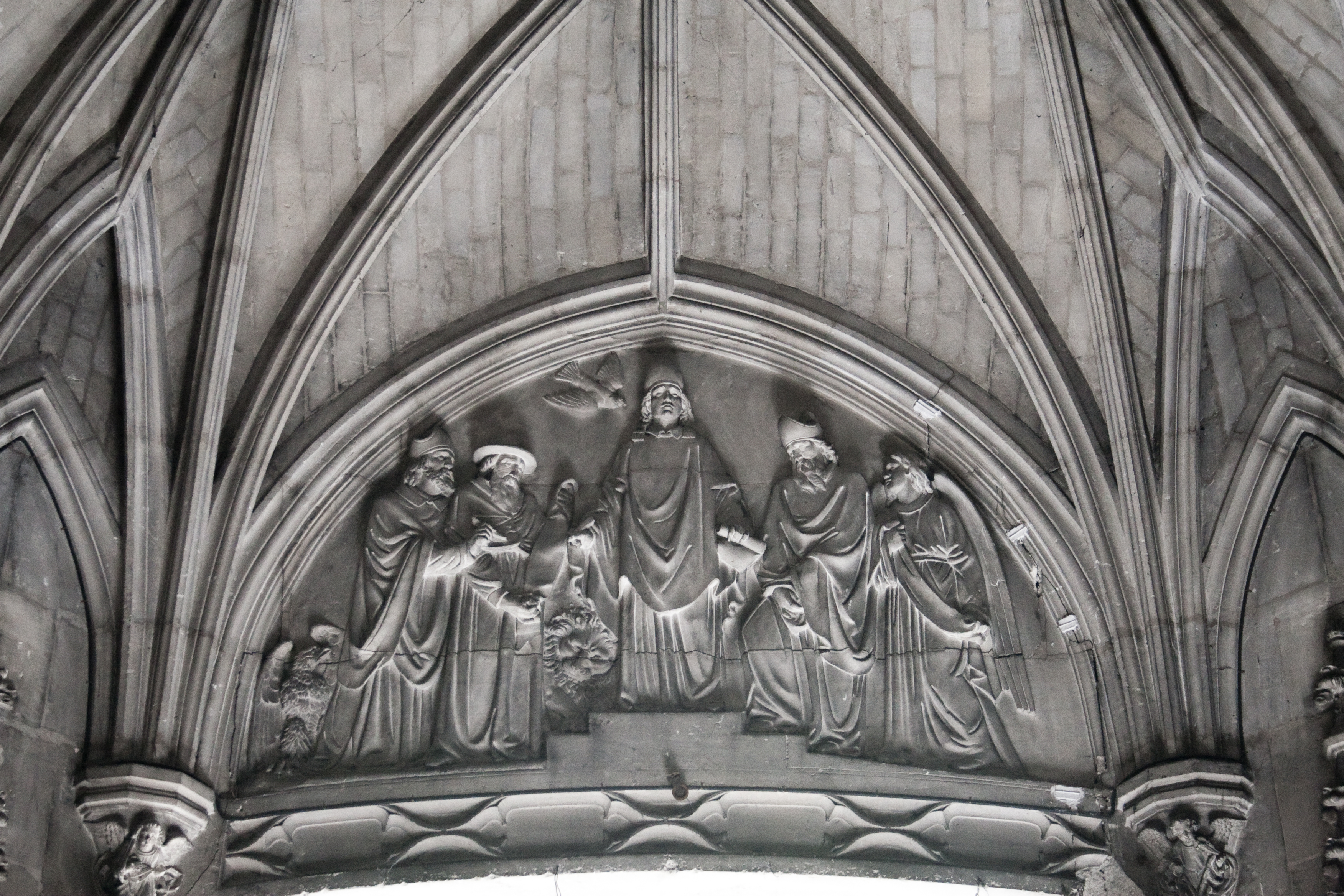 Relief in limestone of the Mission of the Church to England, initiated by Pope Gregory I (center), advised by a dove, and in company by a bishop and a cardinal on the left side and a bishop on the right with the Tetramorph in between. Created by the Lille sculptor Henri Biebuyck (1835–1907) c. 1875.